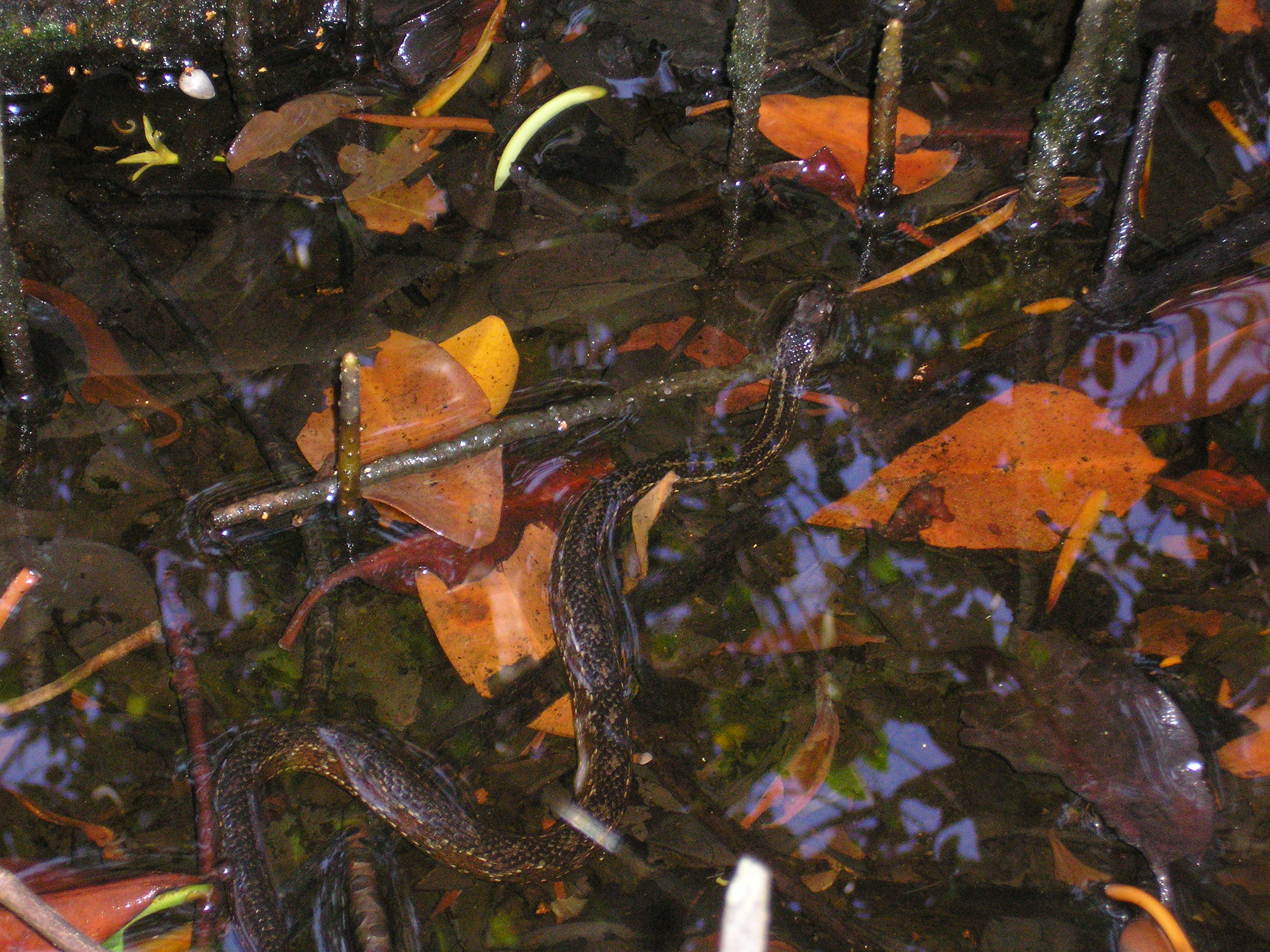 Nerodia clarkii compressicauda, the Mangrove Salt Marsh Watersnake, as photographed by a friend using my camera at Matheson Hammock in Bill Baggs Cape Florida State Park, Miami, Florida.